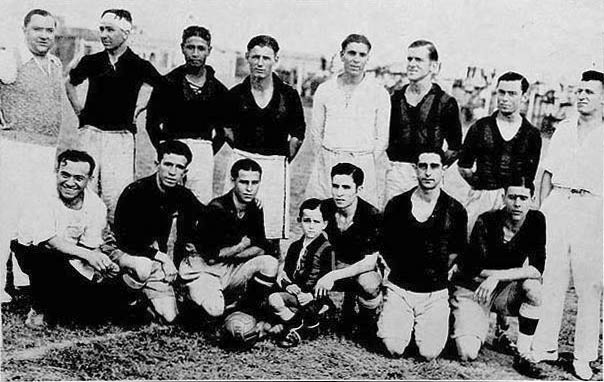 The Nueva Chicago football team that won the Copa Competencia Jockey Club in 1933. That was the last year this cup was played.